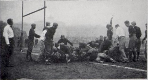 1909 Pitt scores second touchdown versus Washington & Jefferson